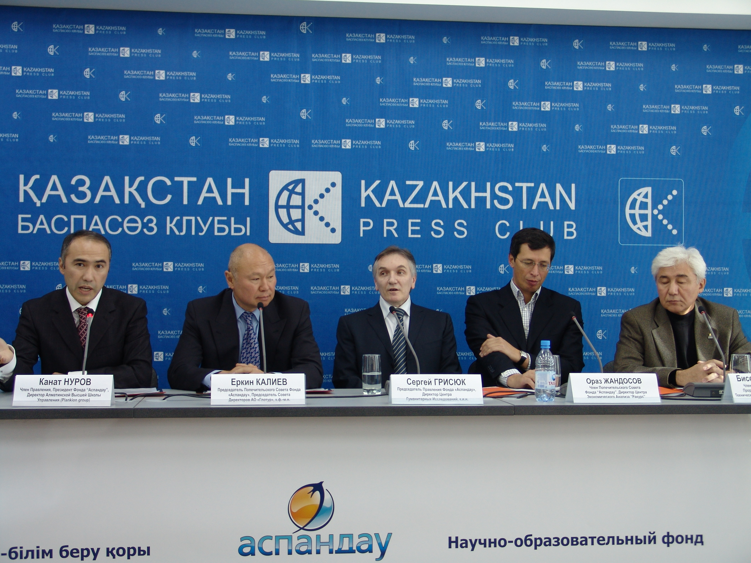 Press-conference of Aspandau Foundation